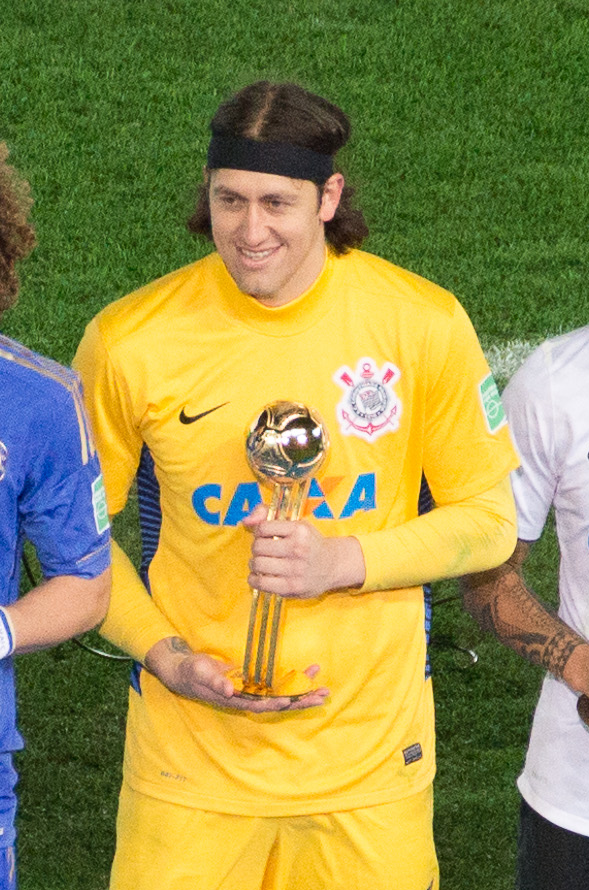 Cassio of SC Corinthians (center) holds the adidas Golden Ball trophy, alongside David Luiz, the silver ball winner (left) and Paolo Guerroro, the bronze ball winner.